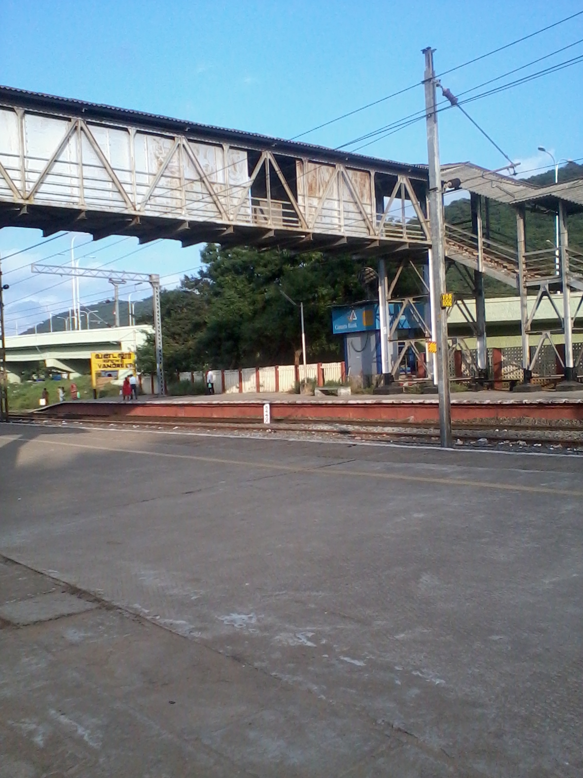 Vandalur railway station